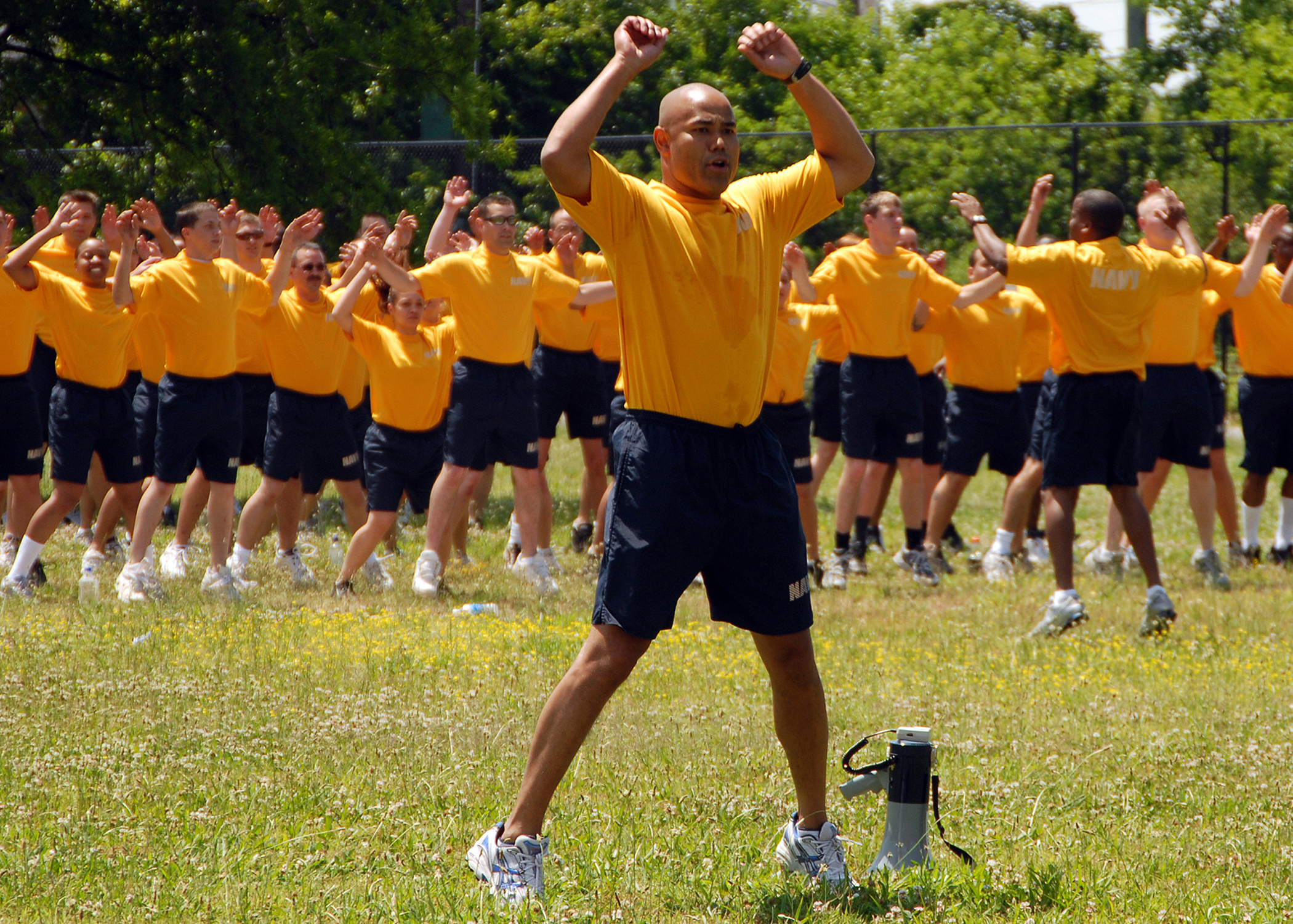 PORTSMOUTH, Va. (June 2, 2008) Amphibious assault ship USS Wasp (LHD 1) Command Master Chief James Williams leads the "No. 1 Ship in the Fleet" during command fitness training. Wasp is the first ship in the fleet to fully outfit its Sailors with the new PT uniform.